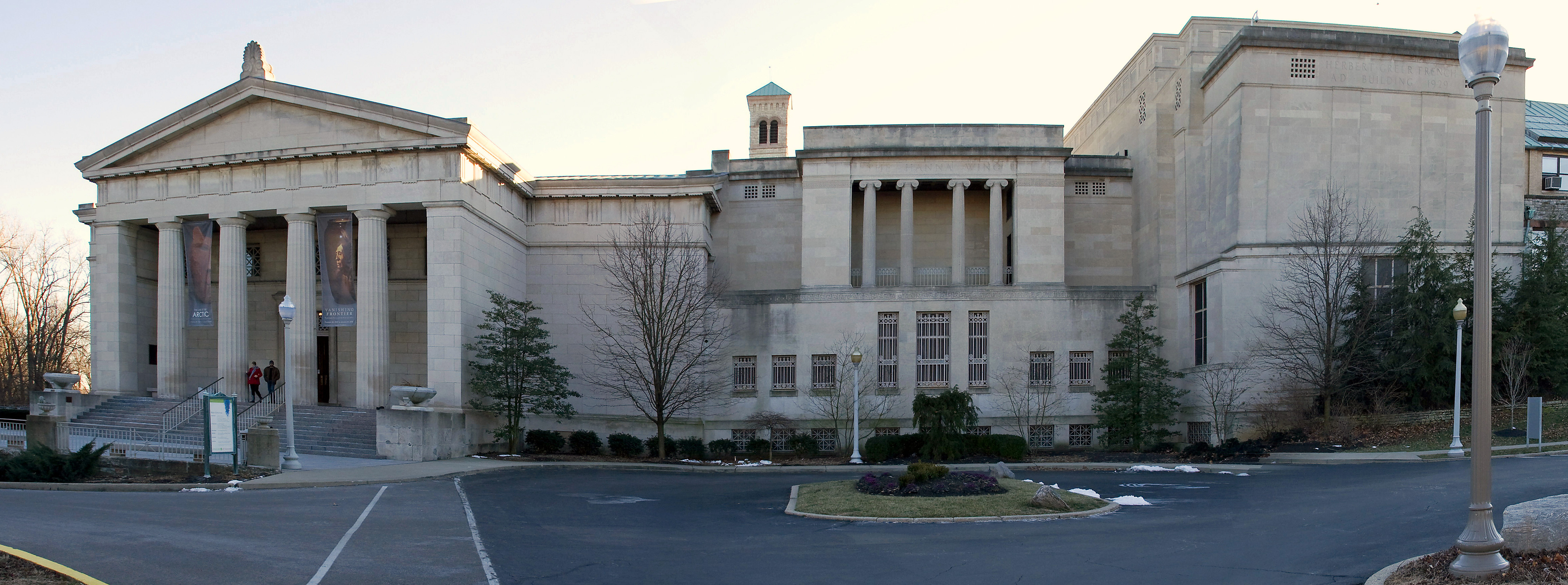 Cincinnati Art Museum Exterior Photo by Greg Hume